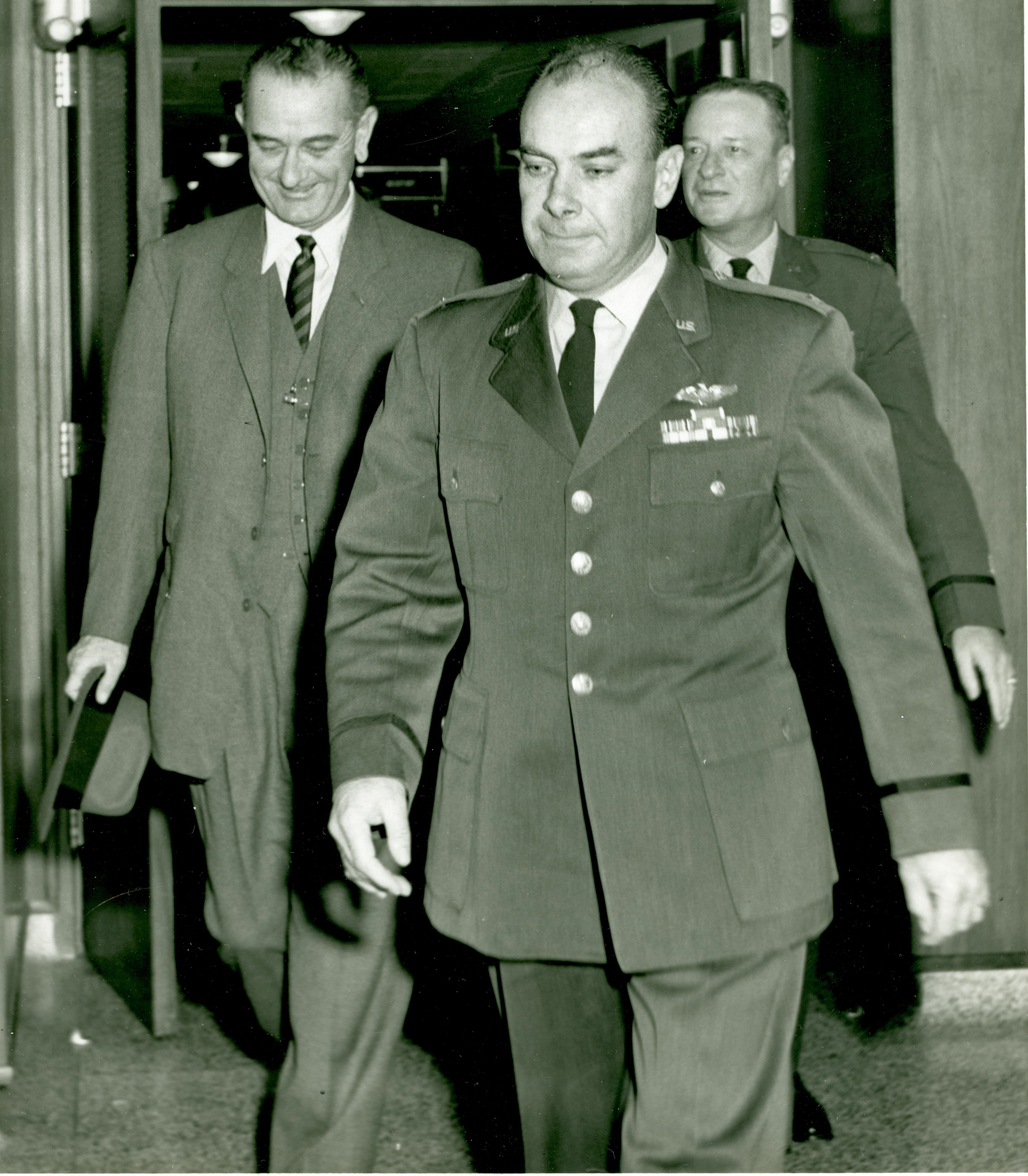 Senator Johnson and Colonel Pickering, USAF